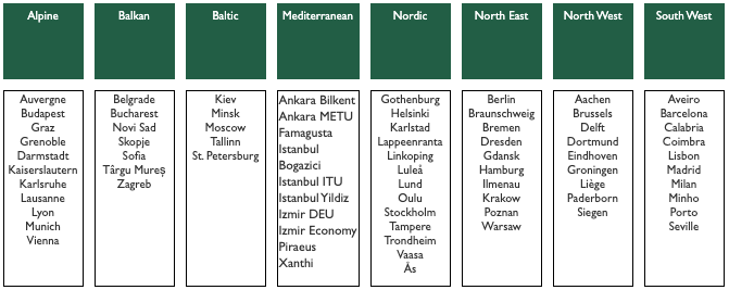 this is an image of the current structure of the local gorups and regions of European students of industrial engineering and Management